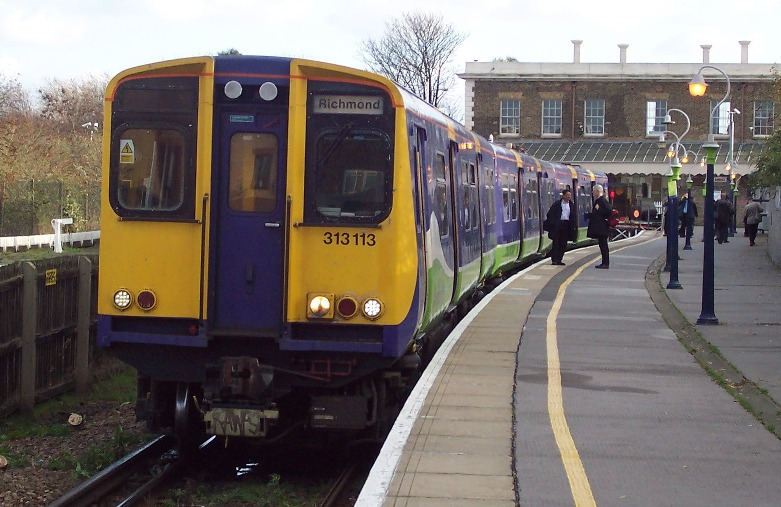 An image of unit 313113 at North Woolwich station on the week before closure.